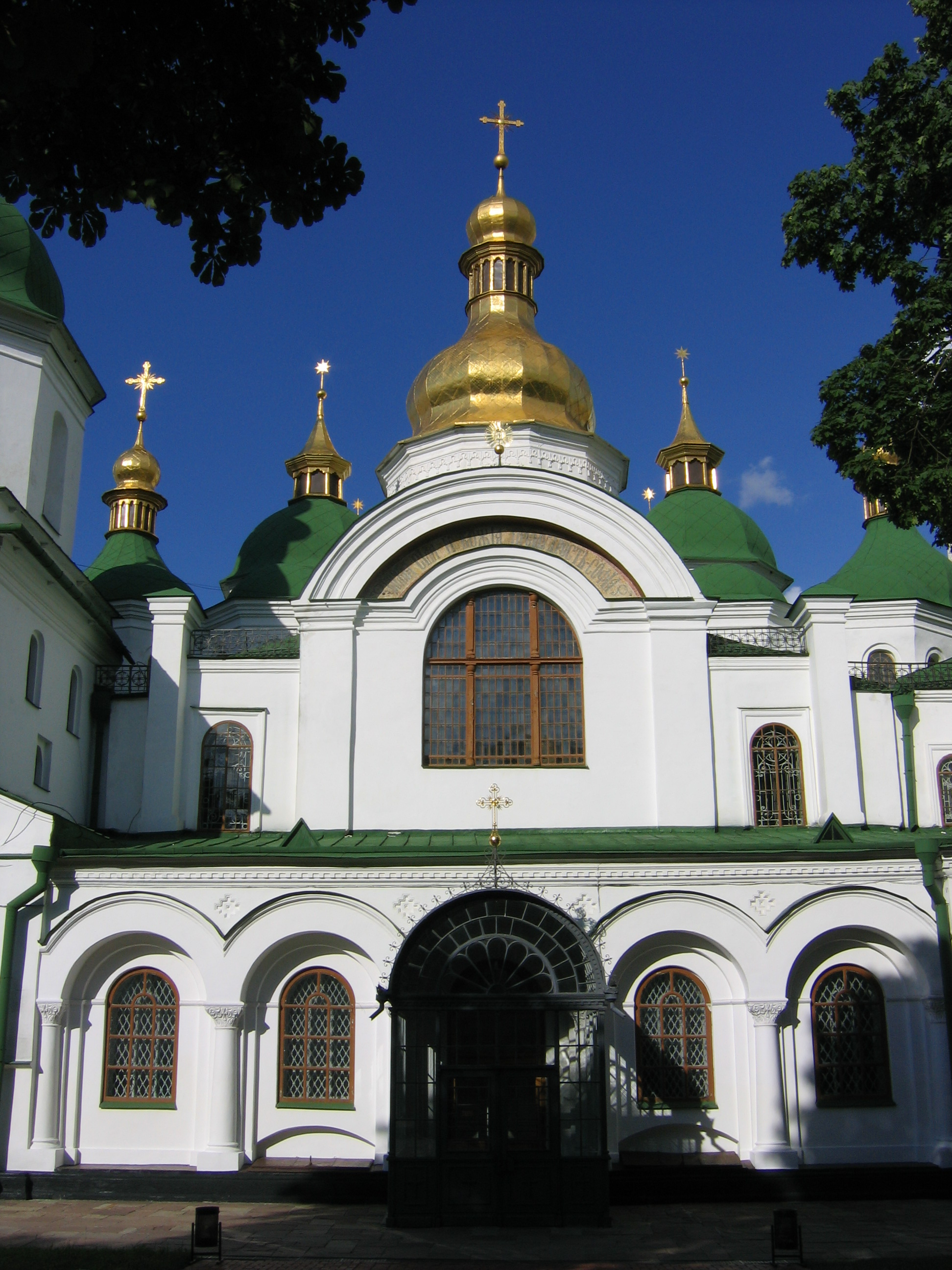 Saint Sophia Cathedral in Kiev, Ukraine